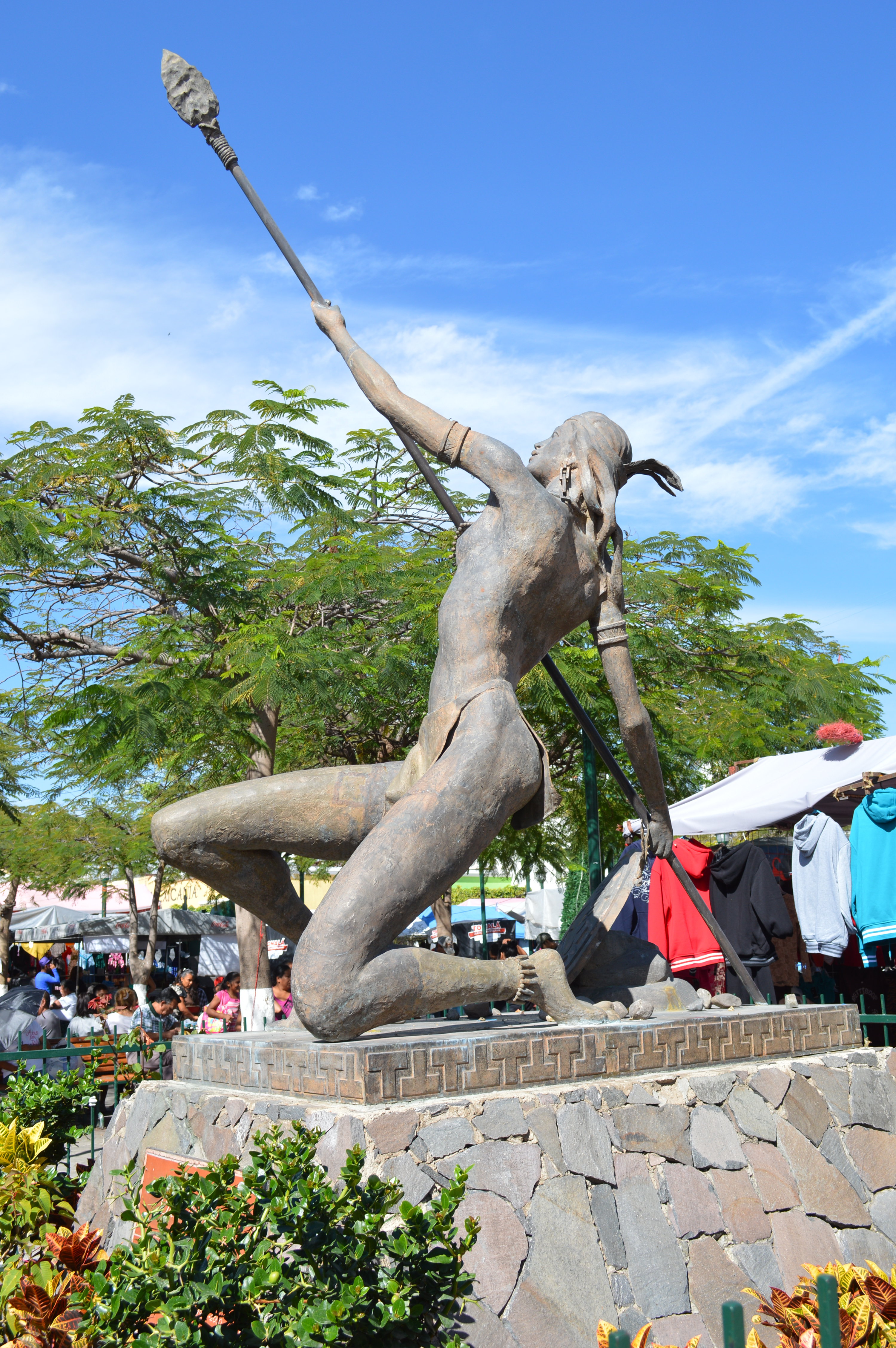 Sculpture in Plaza Cihuapilla in Tonala, Jalisco, Mexico